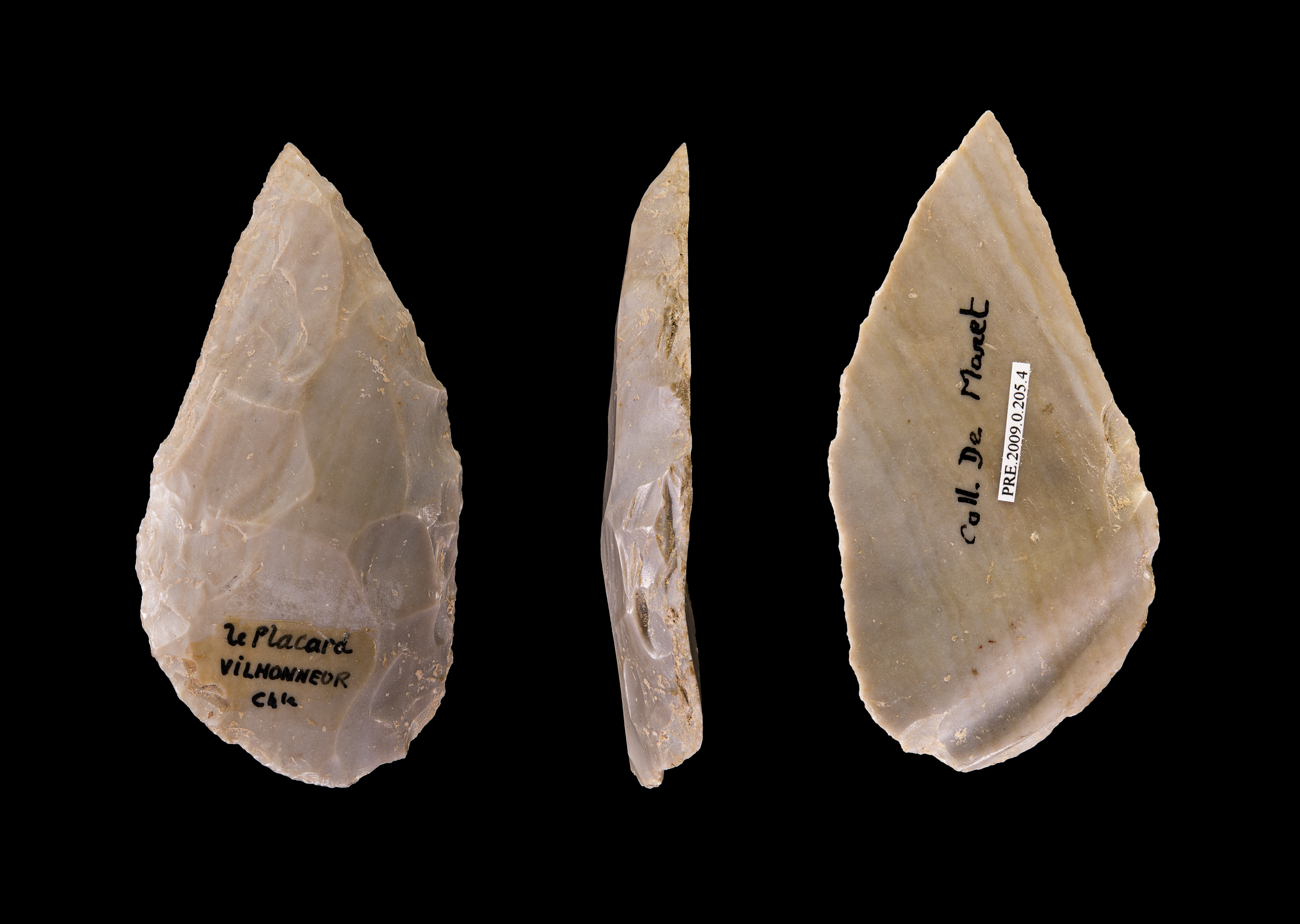 Mousterian point - Different views of the same specimen